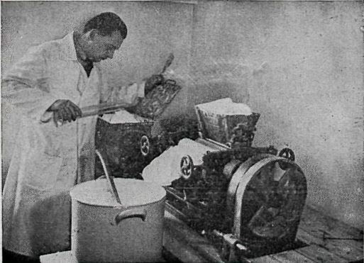 Frank Hüter from Germany who was director of Sjöfn soap factory in Akureyri, Iceland in the factory around 1939. He was taken as a prisoner of war in 1940 when Britain occuped Iceland and was one of the prisoners in the ship SS Arandora Star when it was attacked by the german uboat U-47. He survived.